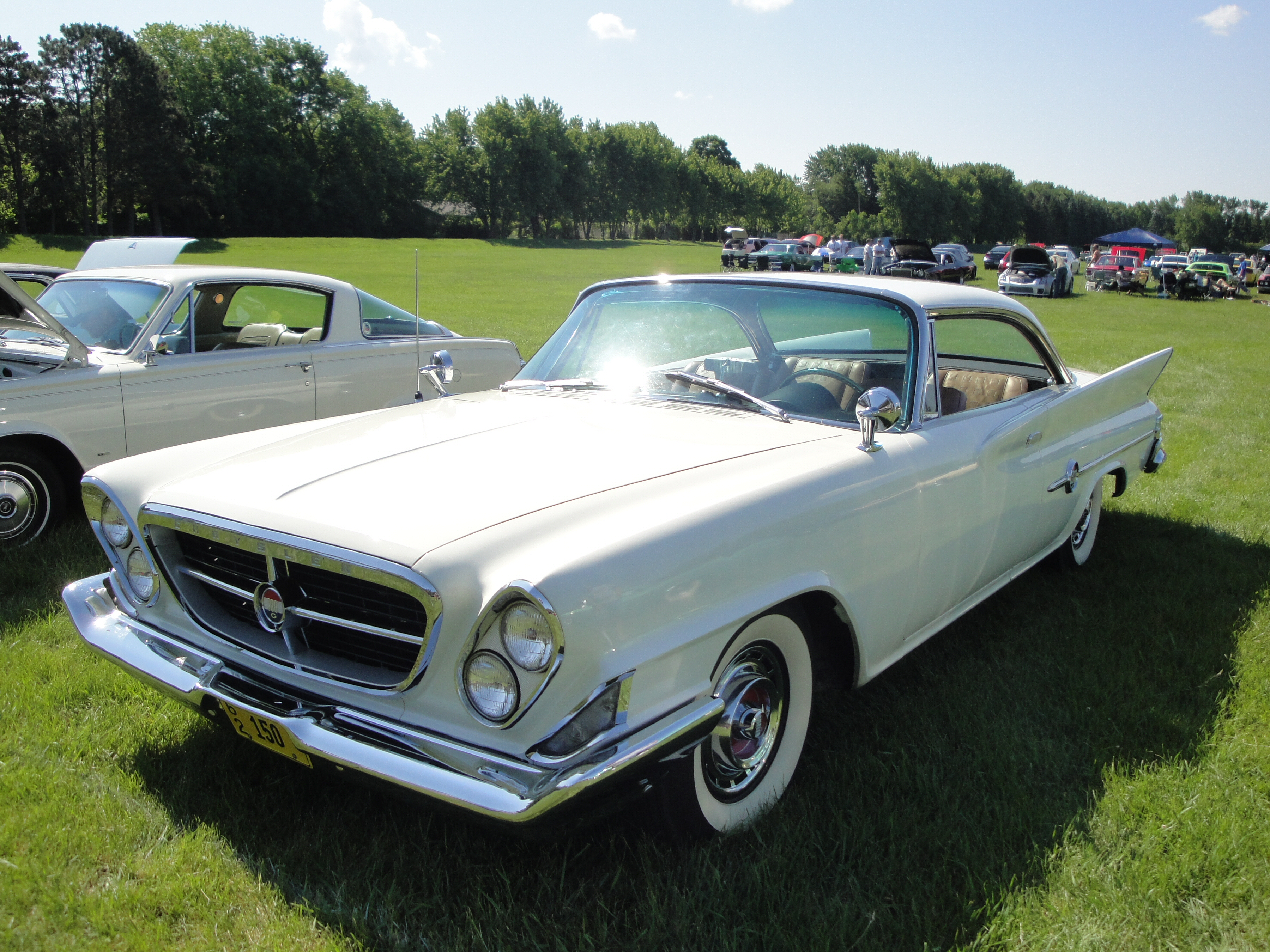 28th Annual Midwest Mopars in the Park June 2, 2012